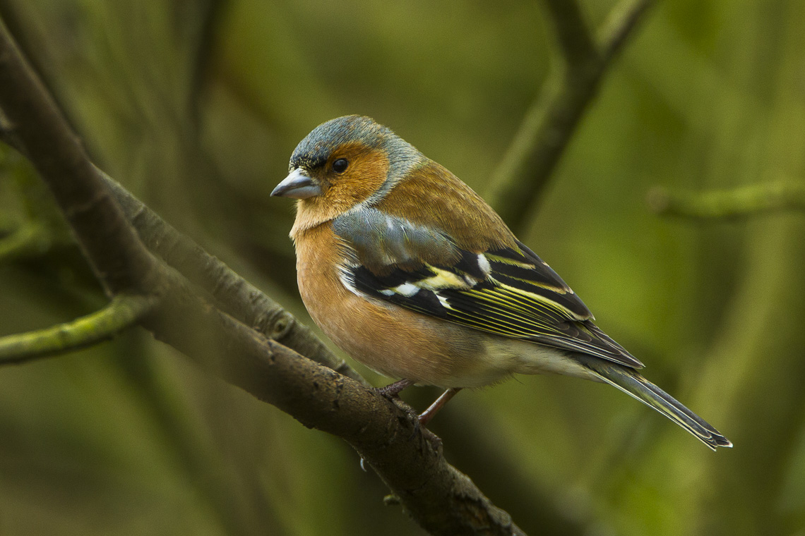 Chaffinch - Italy_S4E3792